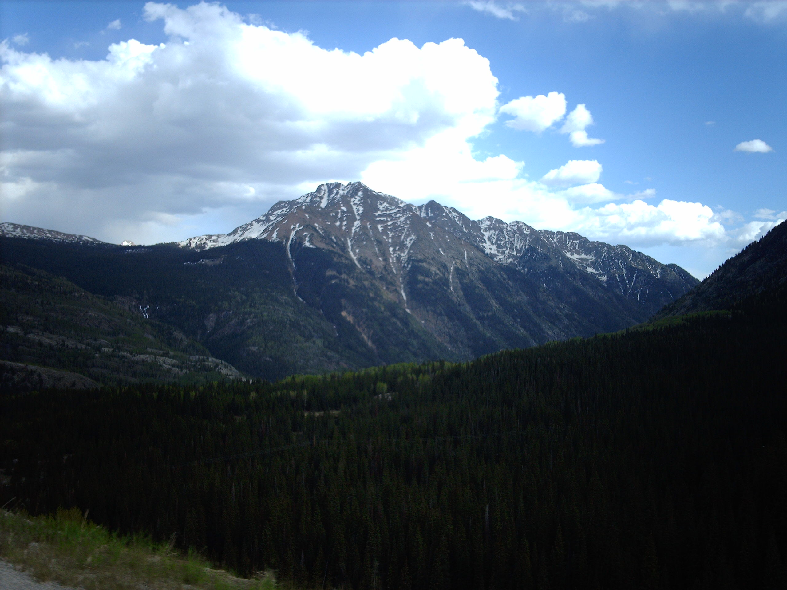 Twilight Peak from the Million Dollar Highway